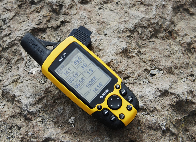 Barafu, the highest camp on Kilimanjaro. Greg Bulla